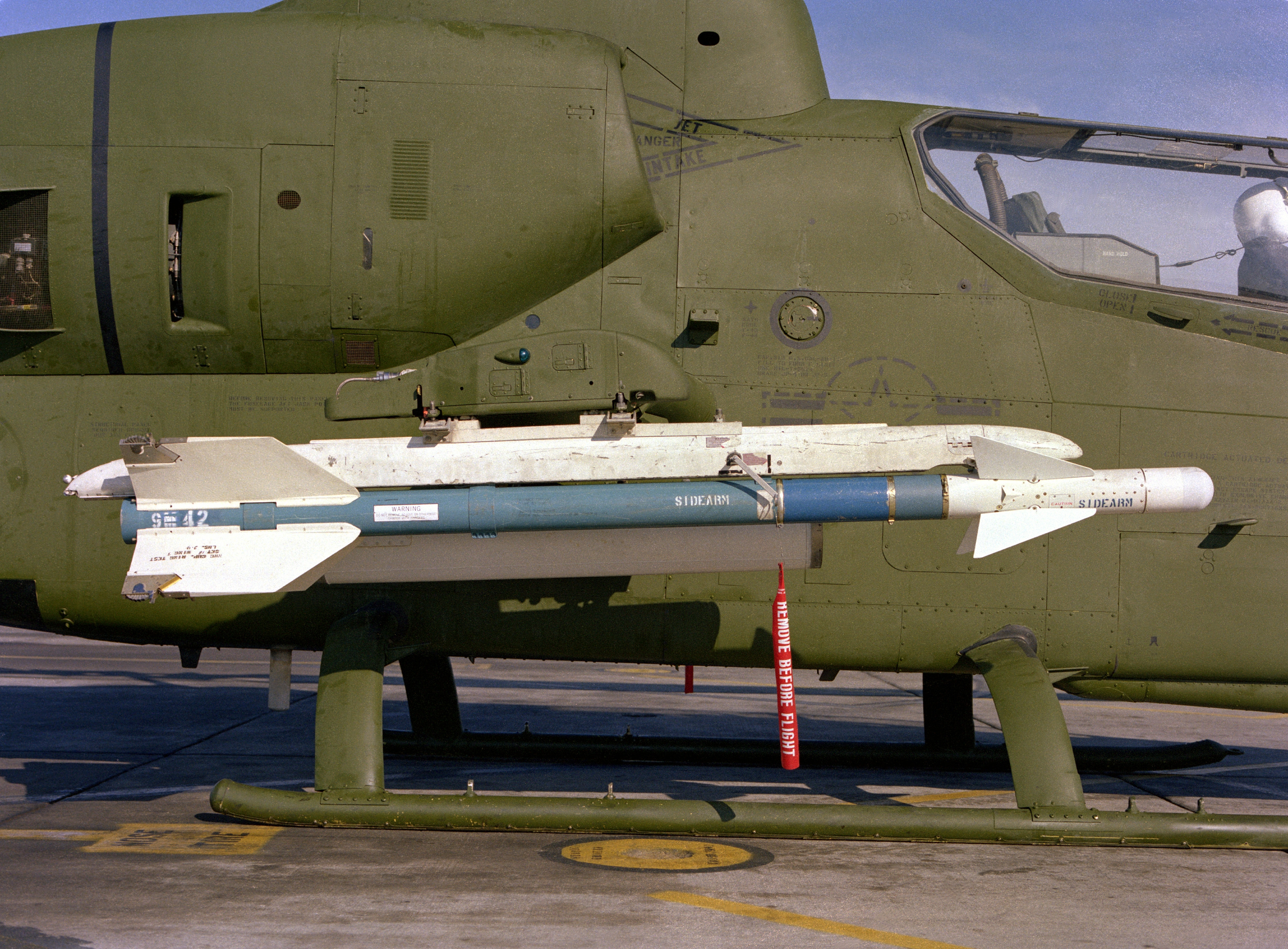 An AGM-122 Sidearm missile on a U.S. Marine Corps Bell AH-1T SeaCobra helicopter (BuNo 159228) at the Naval Weapons Center China Lake, California (USA). 159228 was originally delivered as an AH-1J. It was later converted to an AH-1T, then to an AH-1W. It operated with Air Test and Evaluation Squadron VX-31 at NAS China Lake.